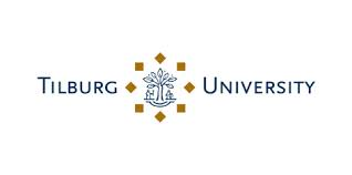 Tilburg University Logo